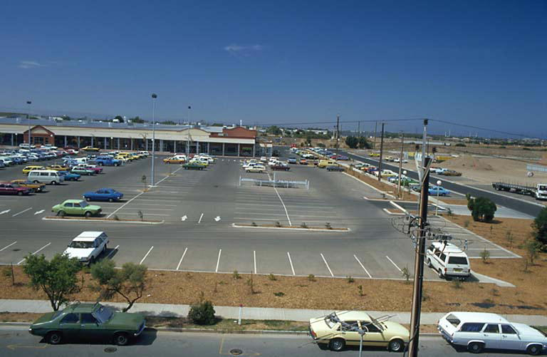 Photographer : John Drennan Date of original: 1986